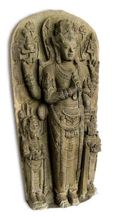 the statue of Harihara, the half Shiva and half Vishnu god. This statue is the mortuary deified potrayal of King Kertarajasa, the first king of Majapahit (rule 1293-1309). The statue is taken from the temple Candi Simping, Sumberjati, Blitar, East Java, Now it is the exhibit collection of Indonesian National Museum, Jakarta. Raden Wijaya (Nararya Sanggramawijaya) or known as Kertarajasa Jayawardhana was the direct descendant of Rajasa Dynasty.